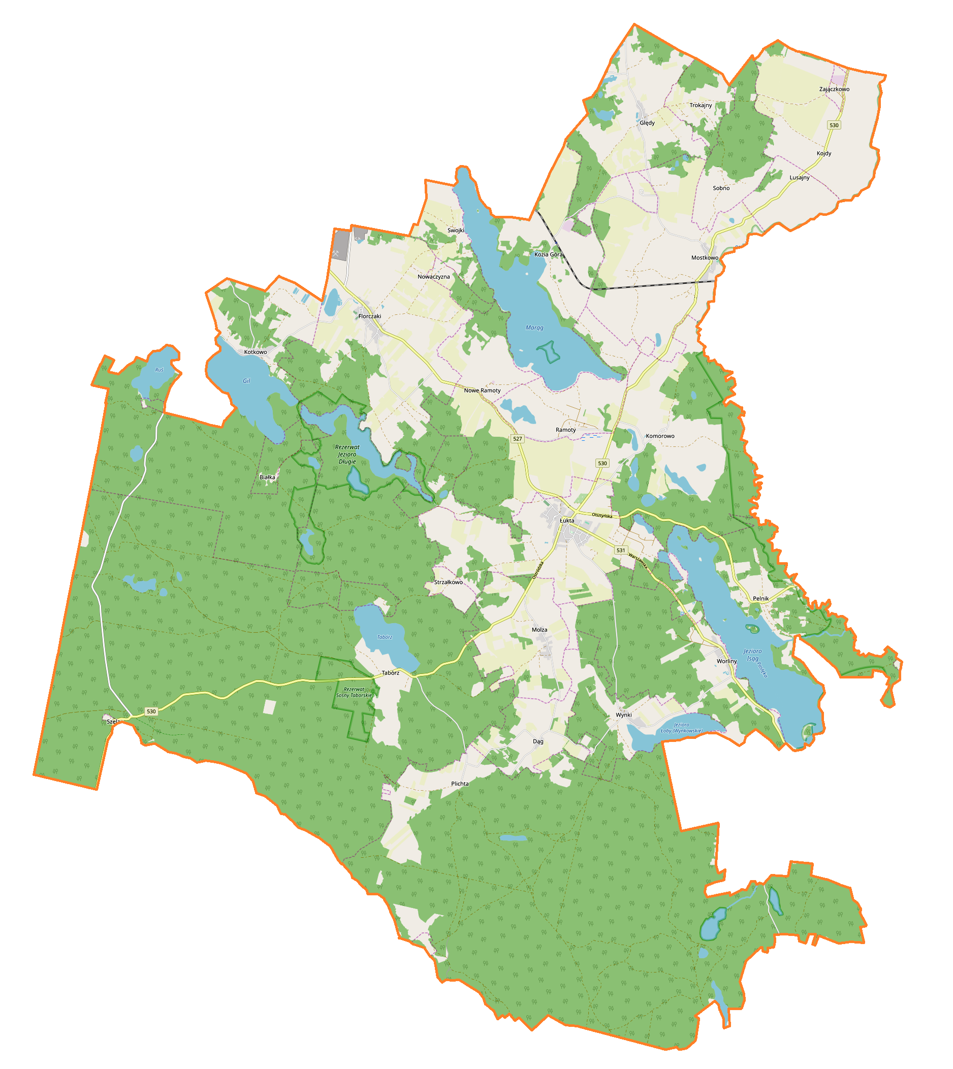 Location map